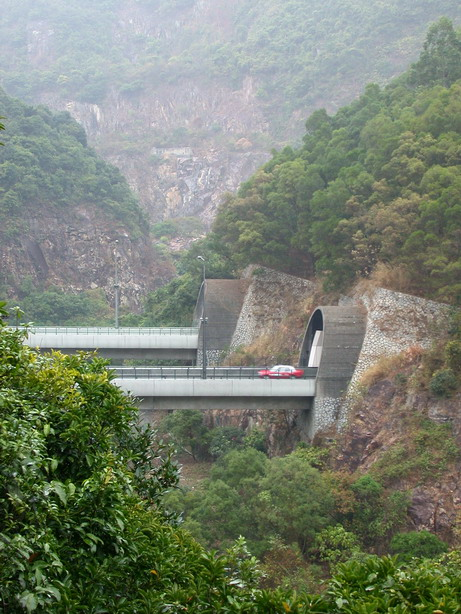 Cheng_don